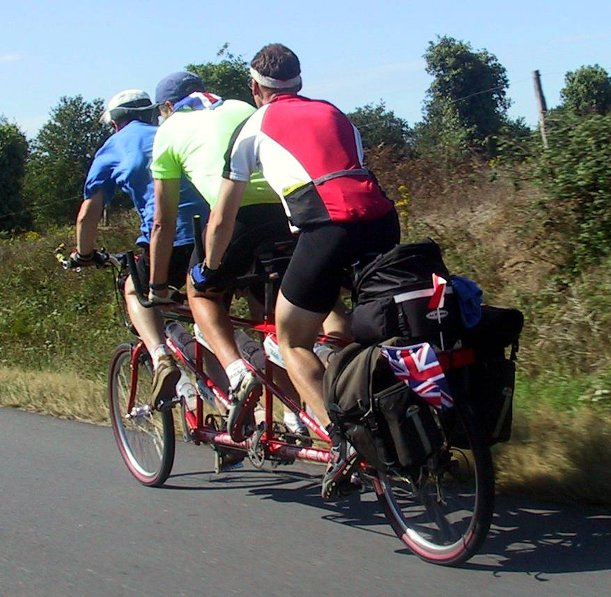 Tandem bicycle for three riders